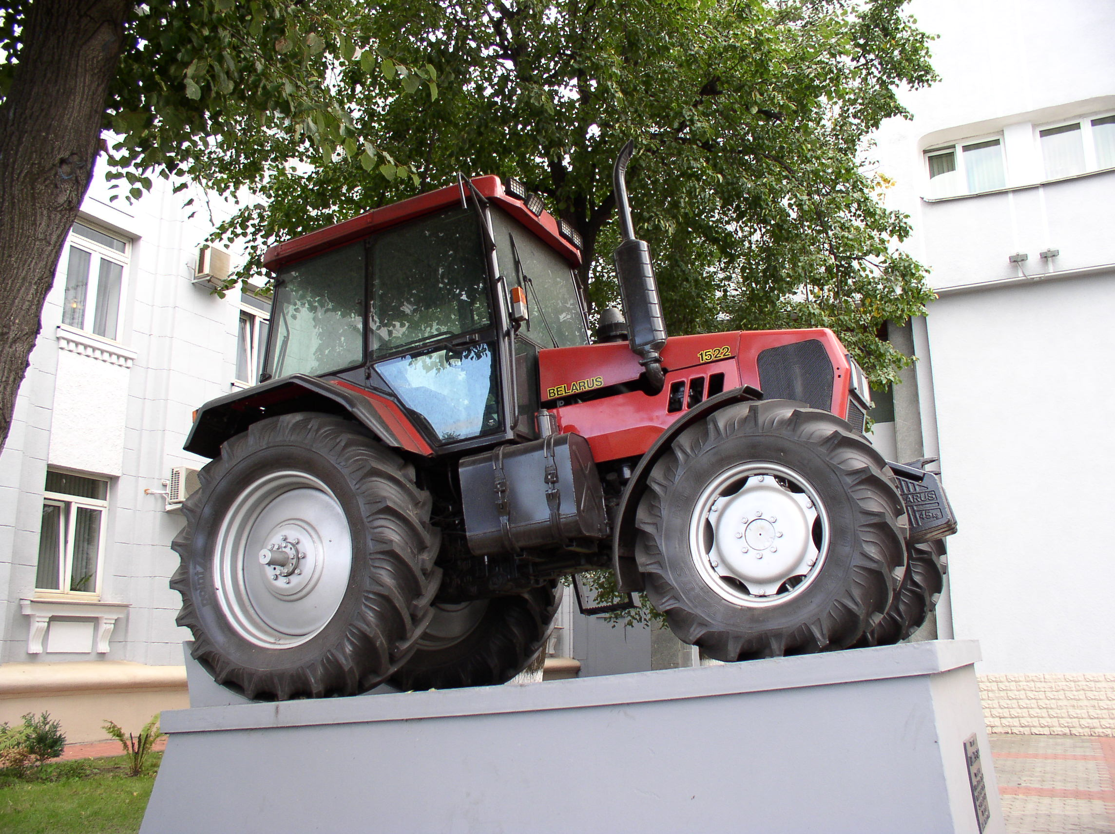 Tractor "Belarus-1522" near Minsk Tractor Works. Minsk, Belarus.